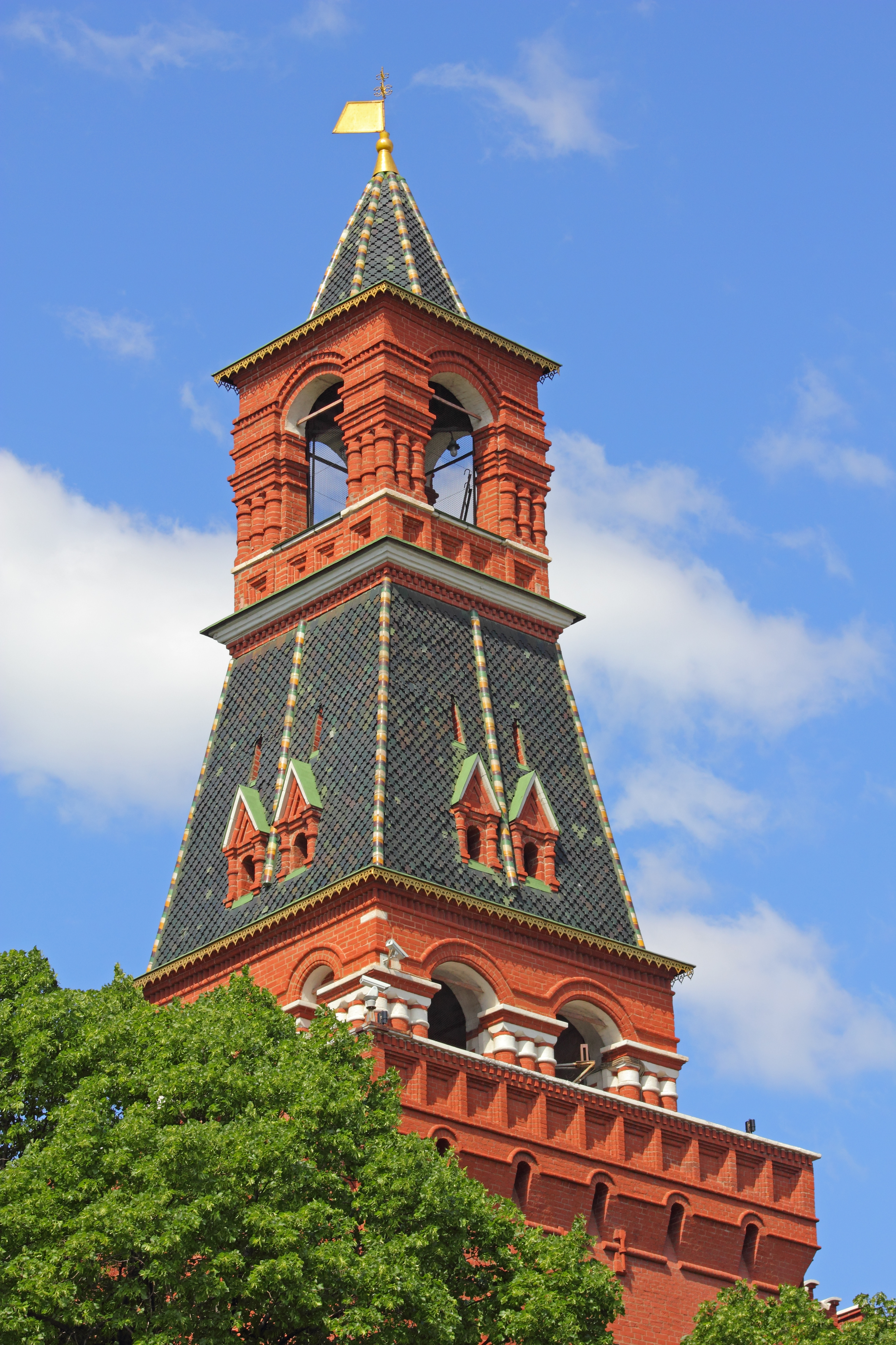 Moscow, Russia. Nabatnaya (Alarm Bell) Tower of the Moscow Kremlin.